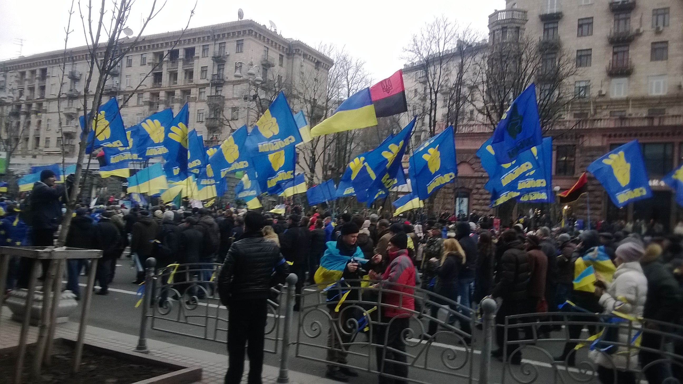 Khreschatic